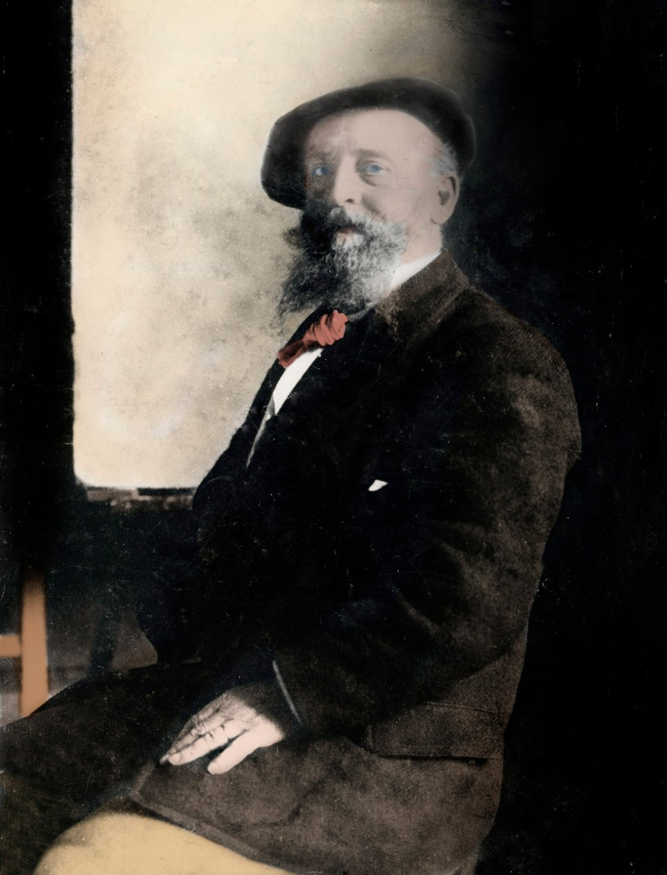 Alfred Sisley circa 1897. Collection Sirot-Angel, Paris.